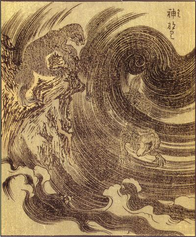 Kaminari (かみなり, A beast that falls to earth in a lightning bolt) from the Ehon Hyaku monogatari (絵本百物語)